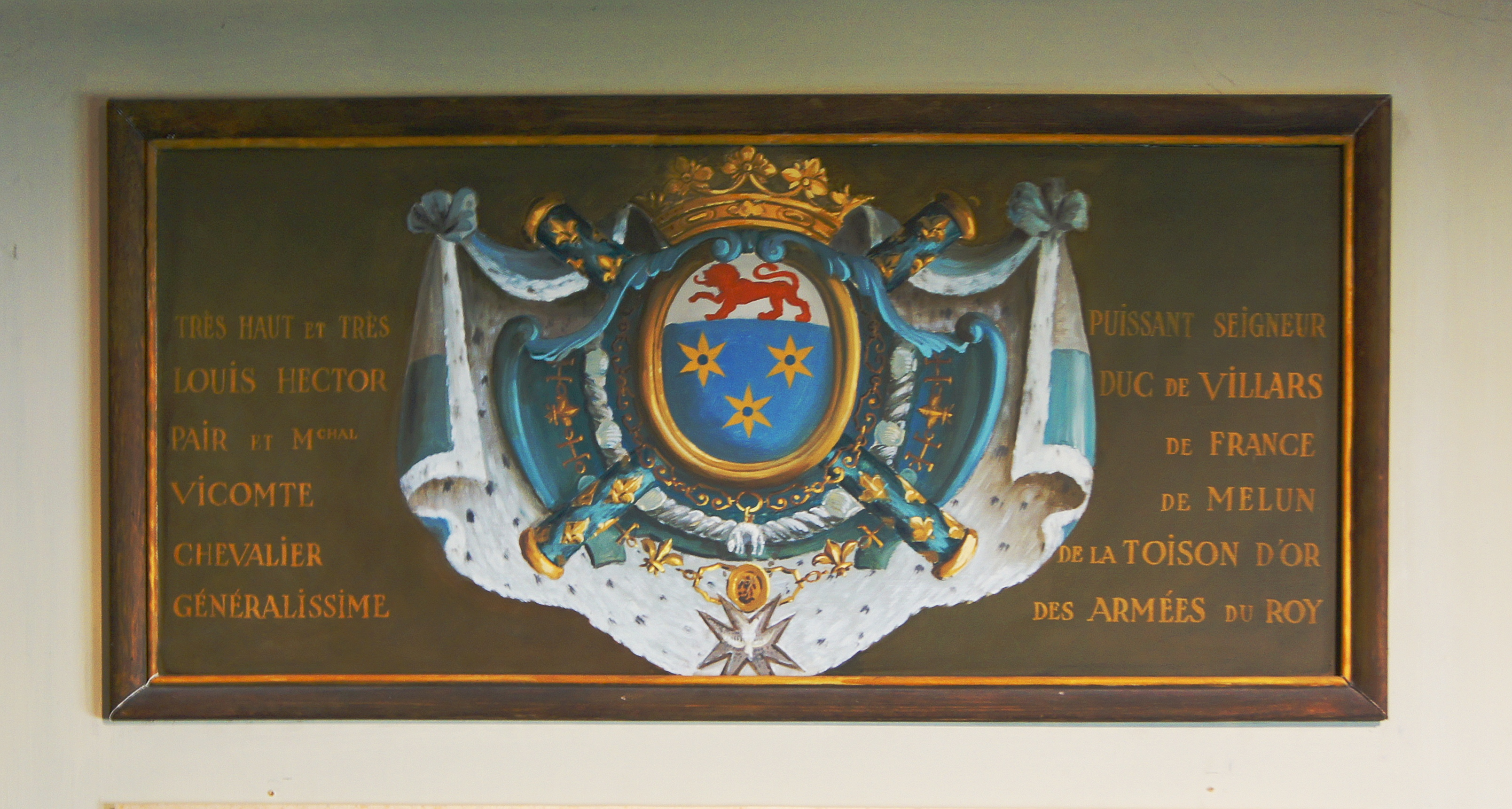 The coat of Arms of Marshall duc de Villars, Château de Vaux le Vicomte, France